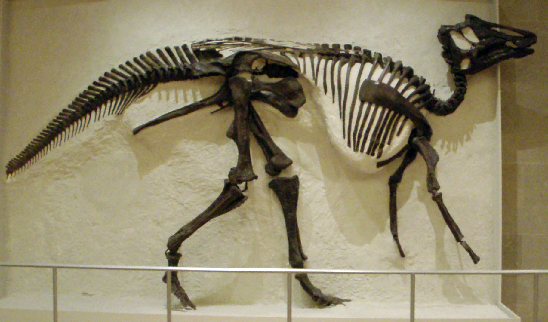 Prosaurolophus maximus, collected 1921, Royal Ontario Museum, Toronto.